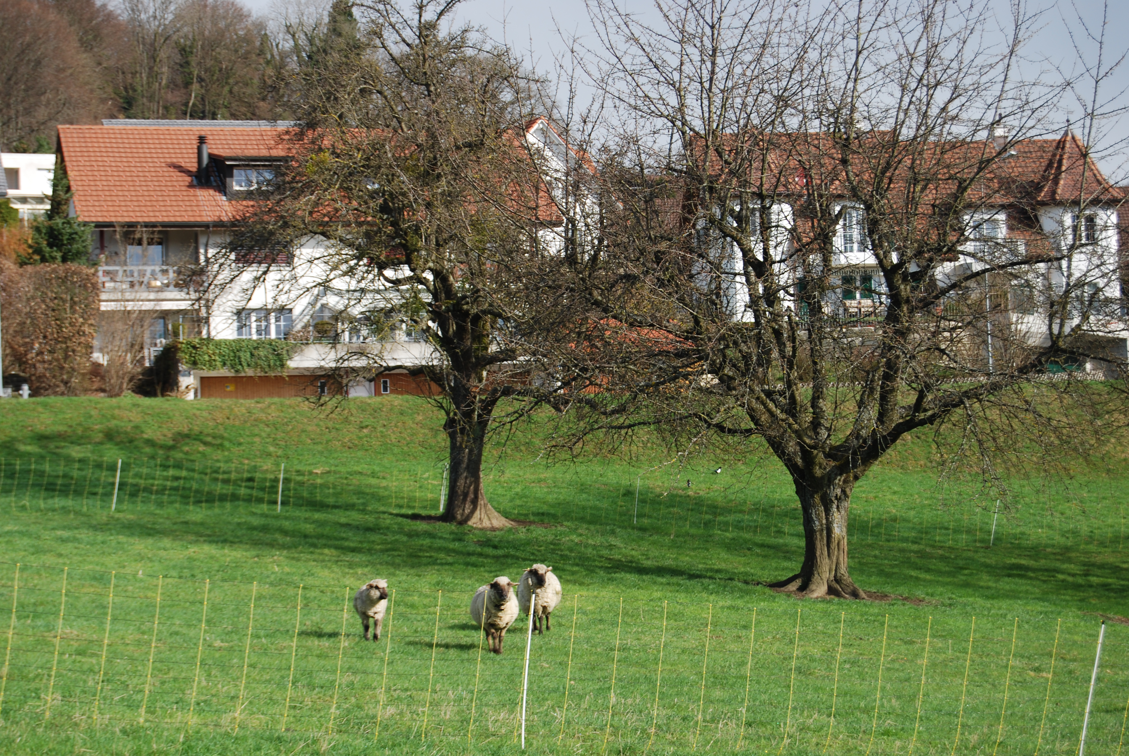 Schneisingen, canton of Aargau, SwitzerlandEsperanto: Schneisingen, Kantono Argovio, Svislando